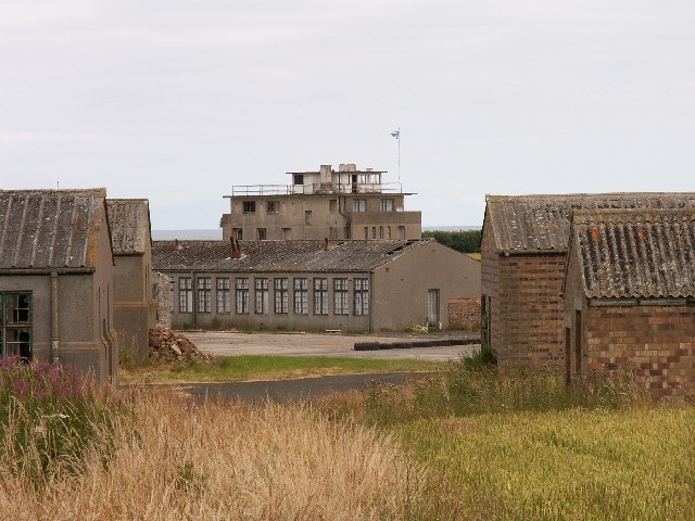 War time buildings on the RNAS Crail airfield.